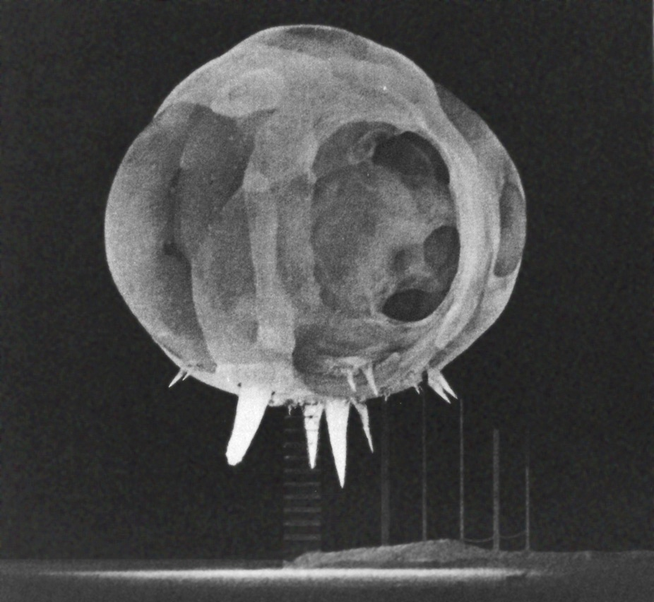 Nuclear detonation from the "Tumbler Snapper" test series showing fireball and "rope tricks" by Lawrence Livermore National Laboratory : The photograph was shot by a Rapatronic camera built by EG&G. Since each camera could record only one exposure on a sheet of film, banks of four to 10 cameras were set up to take sequences of photographs. The average exposure time was three millionths of a second. The cameras were last used at the Test Site in 1962. A paragraph from Michael Light's book 100 suns which includes this image and provides insight to the origin of such photos follows here: "At the still picture branch of the United States National Archives at College Park, Maryland, head archivist Kate Flaherty was unfailingly helpful during all aspects of research at that great institution, as were her staff members Theresa Roy and Sharon Culley. Roger Meade, chief archivist at the Los Alamos National Laboratory in New Mexico, went above the call of duty to make material available and help identify some of its more arcane aspects. At Lawrence Livermore National Laboratory in California, archivists Steve Wofford, Beverly Bull and Maxine Trost helped with image research. Nick Broderick, classification analyst at Lawrence Livermore, kindly provided final identification of notoriously difficult to attribute ultra-high-speed Rapatronic images made by E.G.&G. Thanks as well to filmmaker Peter Kuran for additional identification help with Rapatronic images."